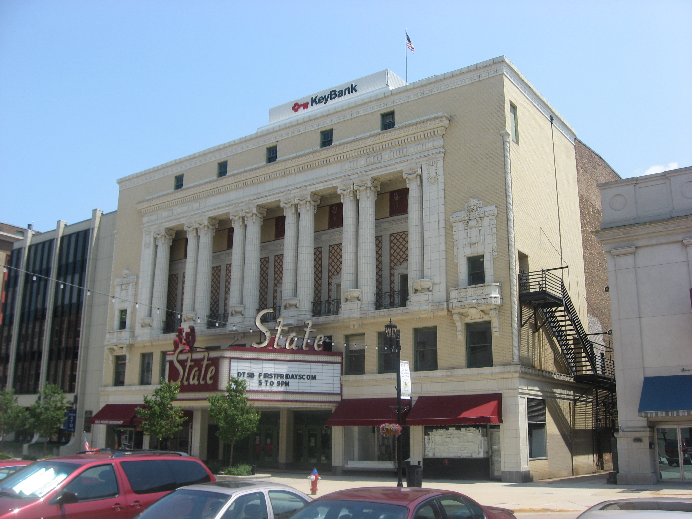 Front and southern side of the Blackstone-State Theater, located at 212 S. Michigan Street in South Bend, Indiana, United States. Built in 1919, it is listed on the National Register of Historic Places.